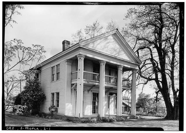 John C. Ainsworth house In Mount Pleasant, Oregon.